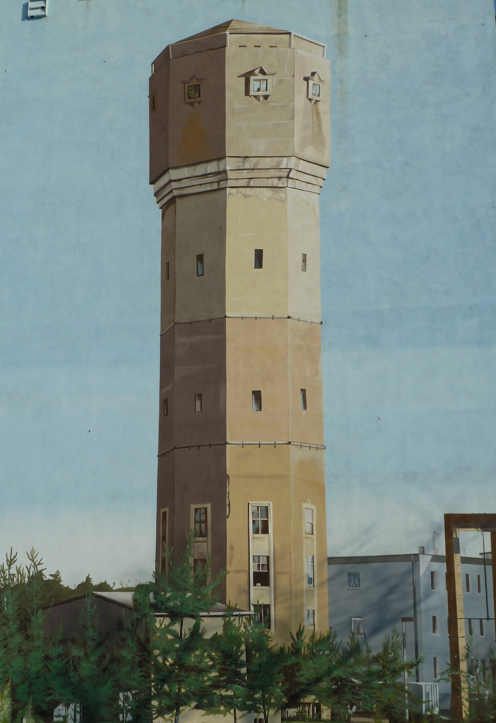 The water tower on the Seddin railyard was on cultural heritage list. Because of strong damages, it was abandoned in 2005. A painting on a house wall in the adjacent village Neuseddin reminds of the tower.